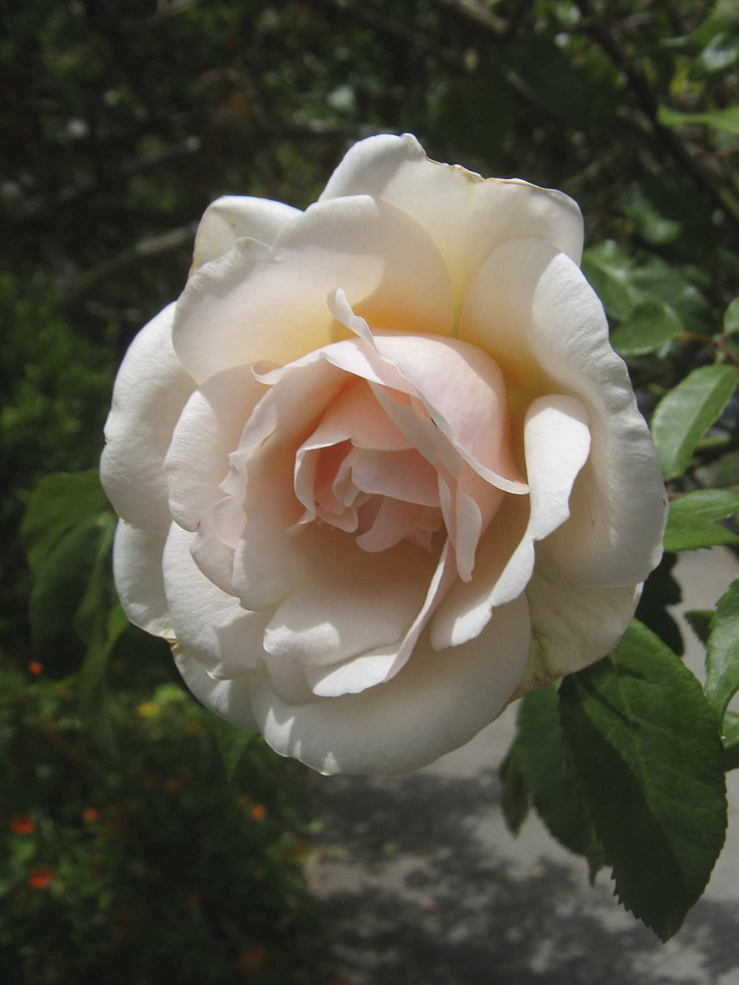 'Tonner's Fancy', Hybrid Gigantea by Alister Clark 1928; Photographed in the Alister Clark Memorial Rose Garden, Bulla, Victoria